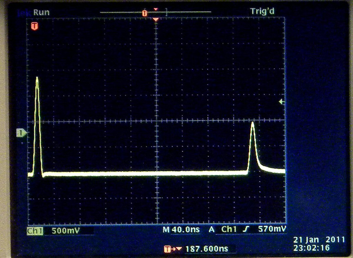 Oscilloscope trace from a TDR (Time Domain Reflectometer) connected to a cable with an open termination at the far end.